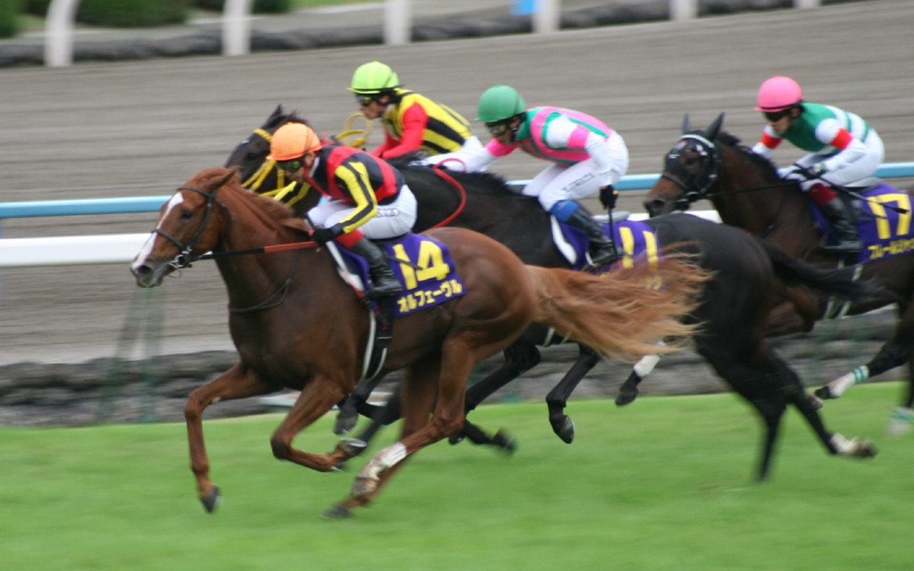 Orfevre at the 72nd Kikuka Sho horserace